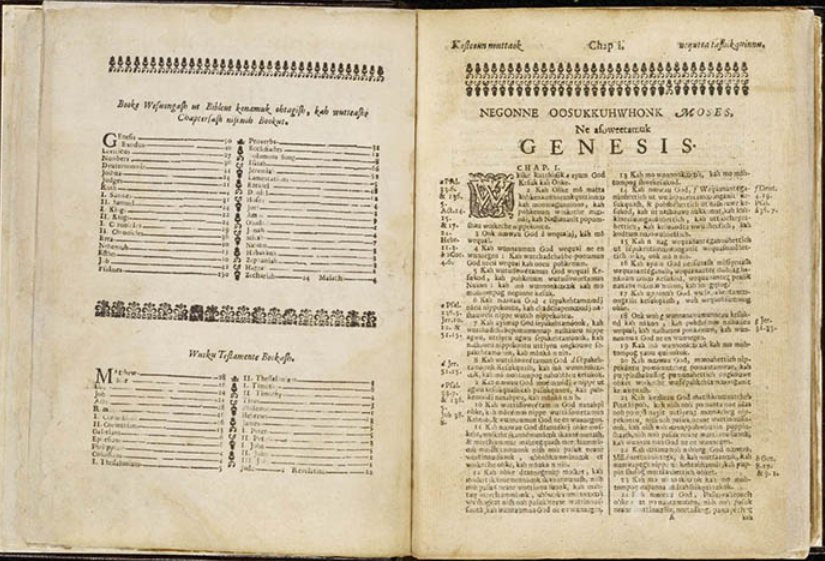 Algonquian 1663 Indian Bible first pages